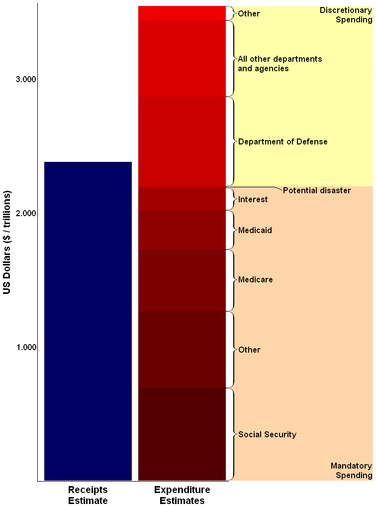 Same as File:2010 Receipts & Expenditures.PNG, but slightly improved. Bar chart comparing estimates for United States federal government total receipts and expenditures in fiscal year 2010.